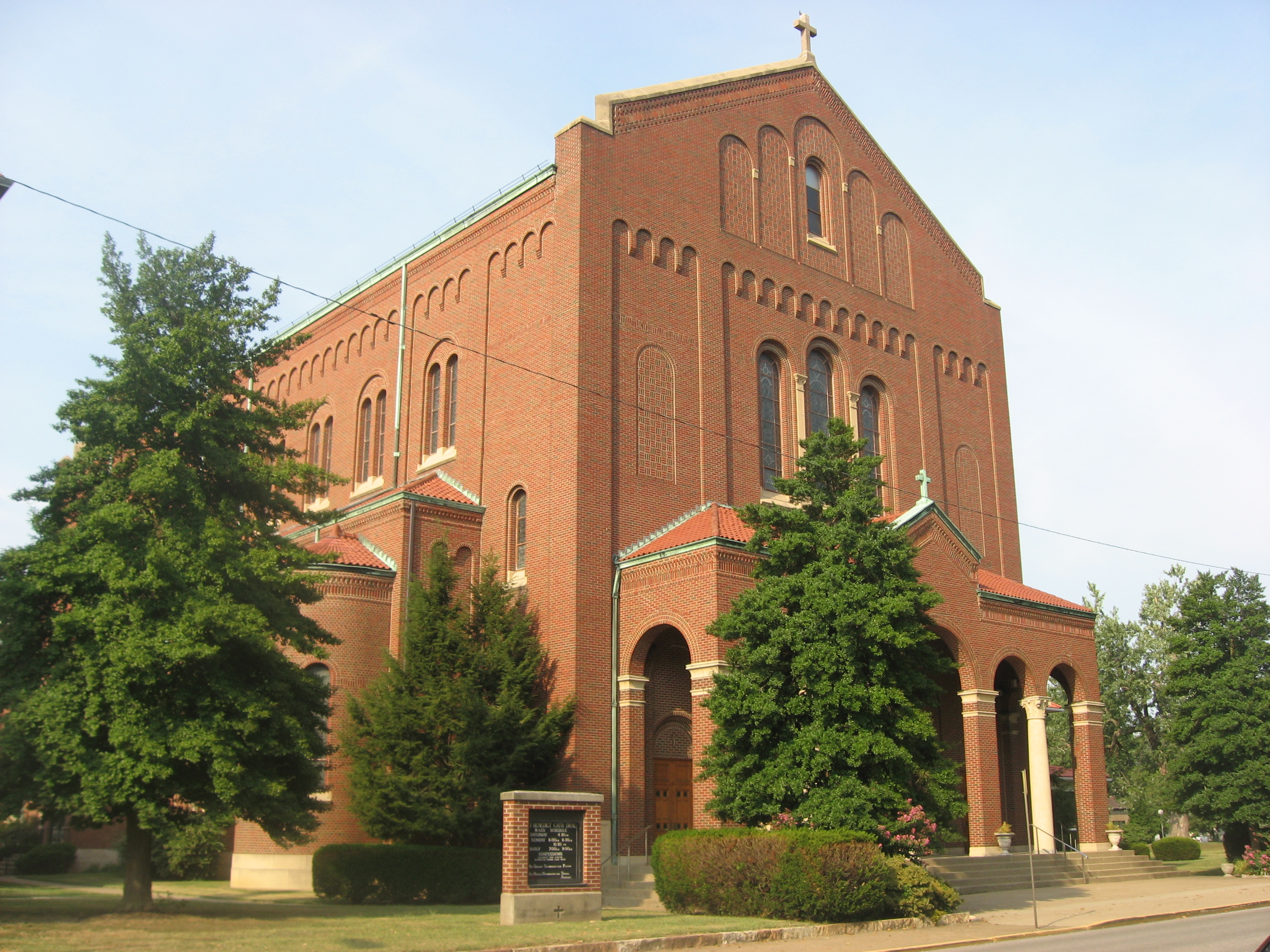 Front and western side of the Cathedral of St. Benedict, located at 1320 Lincoln Avenue in Evansville, Indiana, United States. Completed in 1928, it is the cathedral for the Roman Catholic Diocese of Evansville. It is also a leading part of the Lincolnshire Historic District, a historic district that is listed on the National Register of Historic Places.